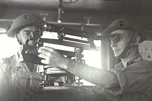 AWM caption: Fremantle, Australia. 1943-02-02. Fremantle fixed defences. Directional range finder detachment in command post at Swanbourne. Left to right: Lance-bombardier C. J. Jarvis and Gunner K. M. Healy.